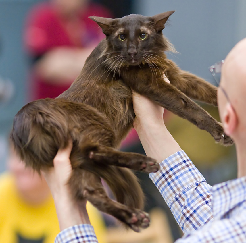 Chocolate oriental longhair in Turok Cat show